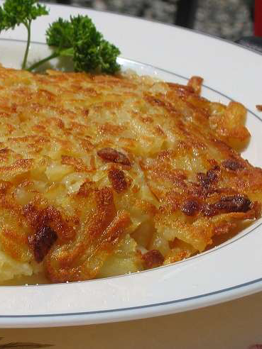 Rösti, the Swiss potato dish.